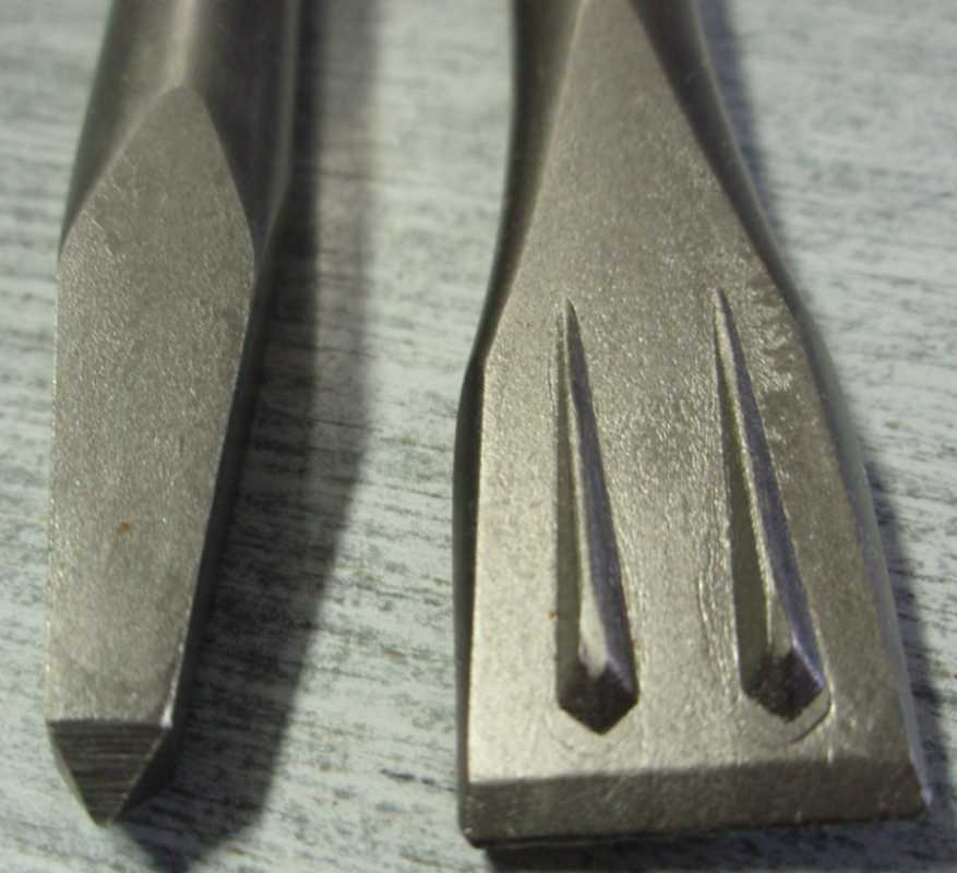 Bosch SDS (Special Direct System) + chisels